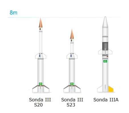 Brazilian Sounding rocket Sonda III variants shapes.